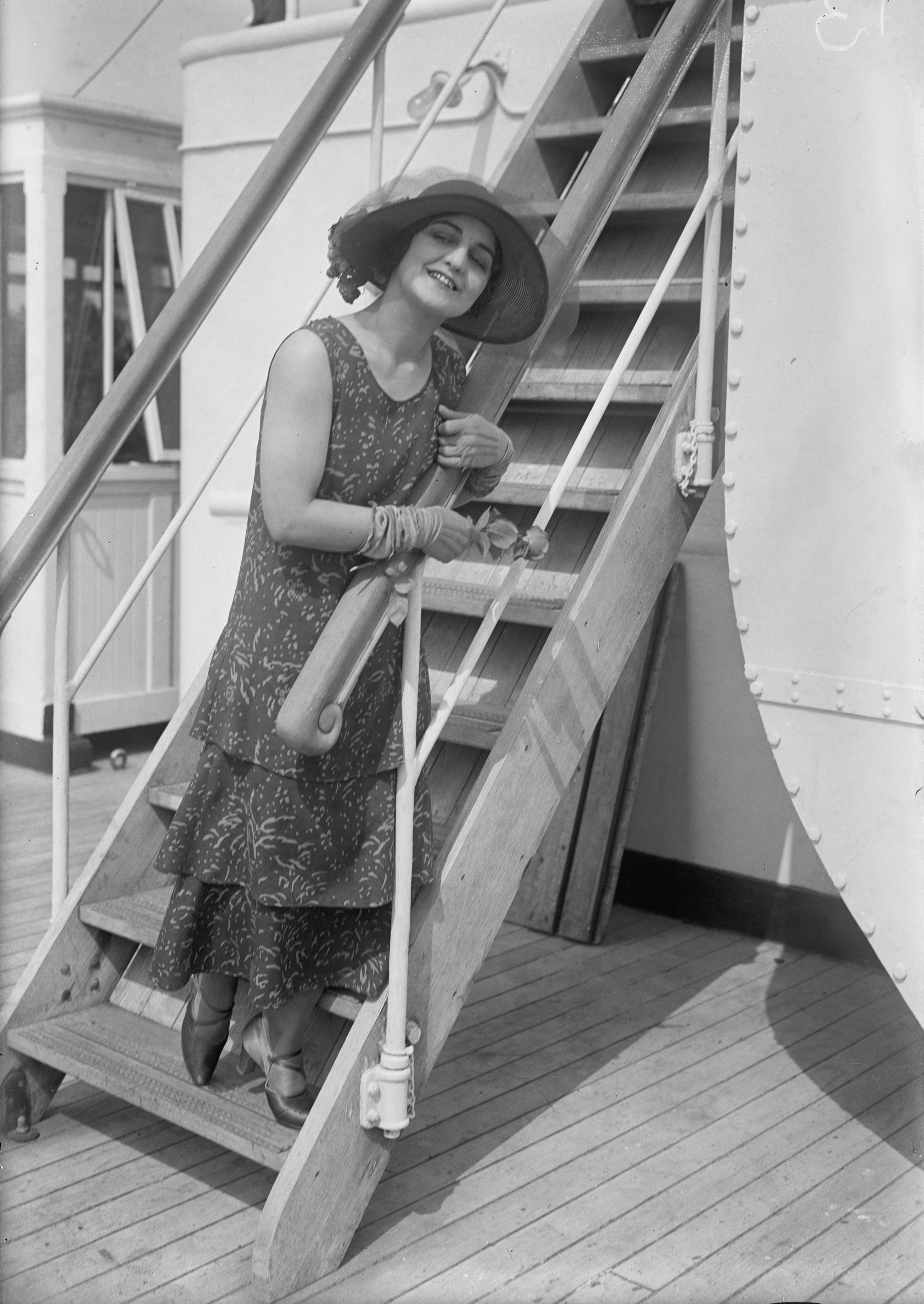 Albertina Rasch, on board a ship, holding a rose; no date on caption card. 1 negative : glass ; 5 x 7 in. or smaller.